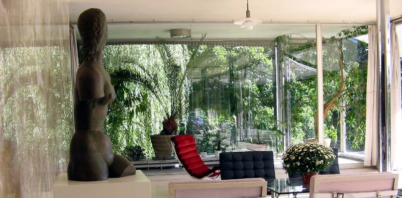 The front room of the Villa Tugendhat by Mies van der Rohe in Brno, Czech Republic.